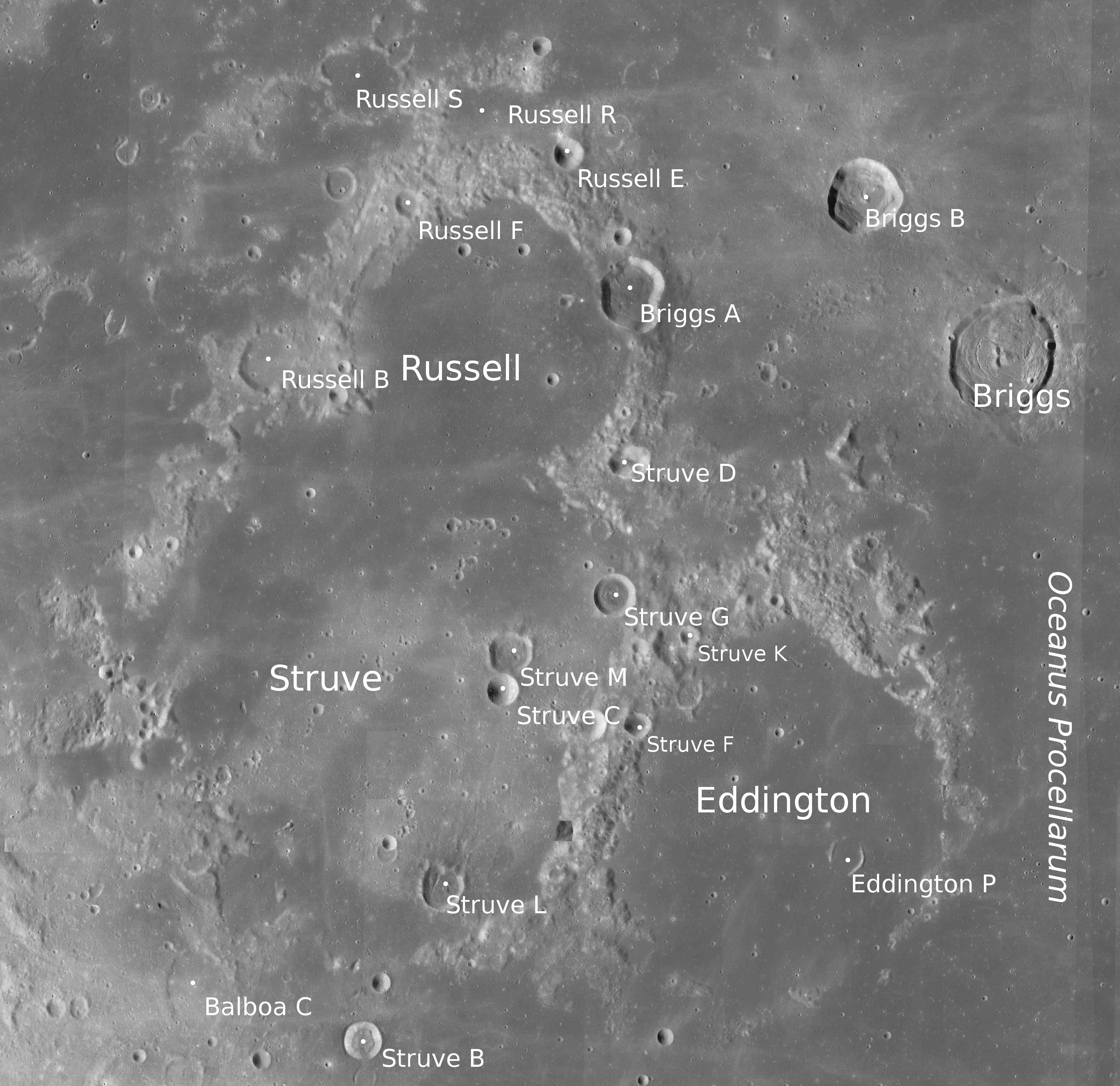 Craters Russell, Struve and Eddington (detail of LRO - WAC global moon mosaic; Mercator projection)